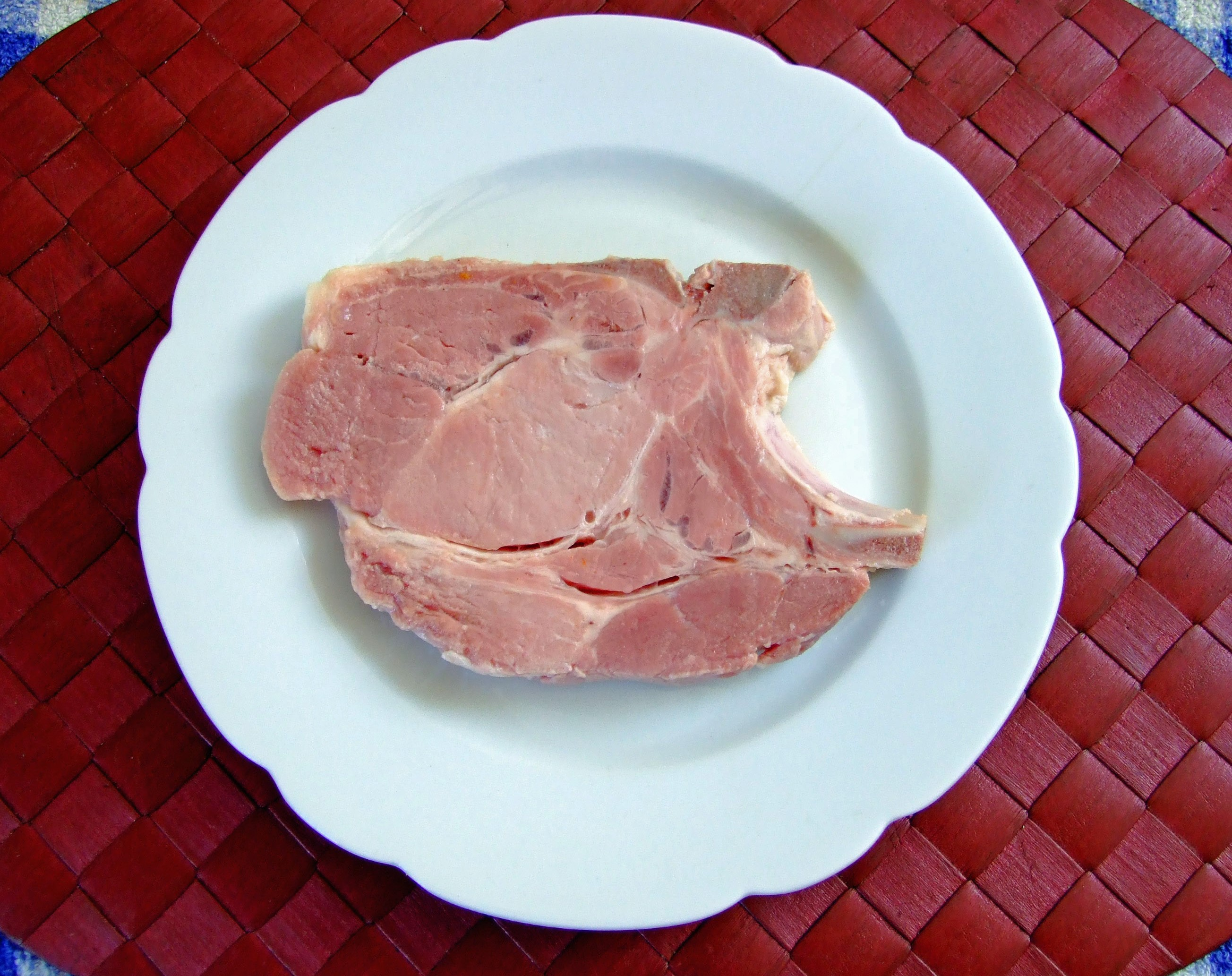 Frankfurter Rippchen (cured pork cutlet)